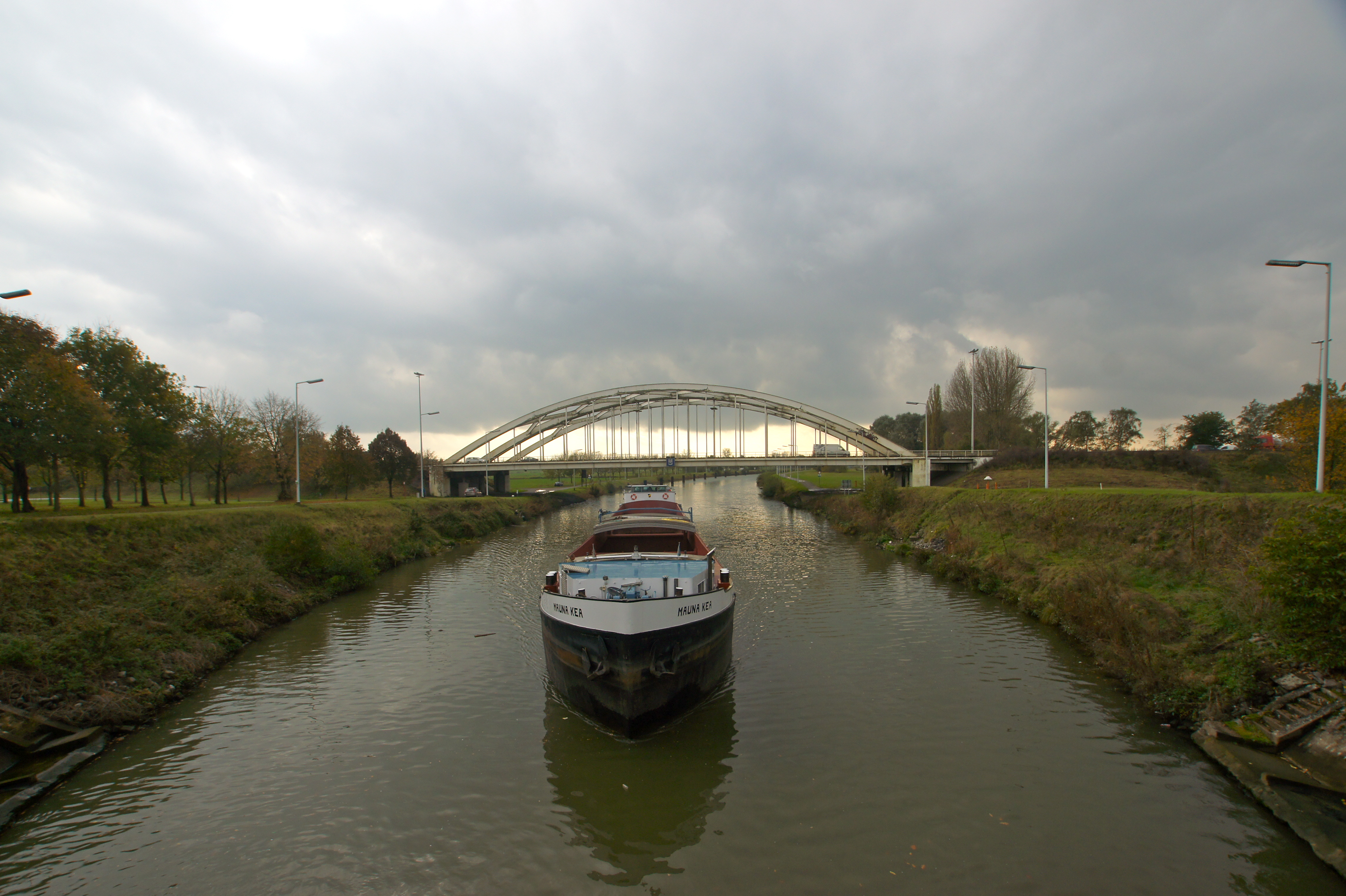 Zandhoven (Viersel), Belgium: E313 Motorway bridge over the Netekanaal